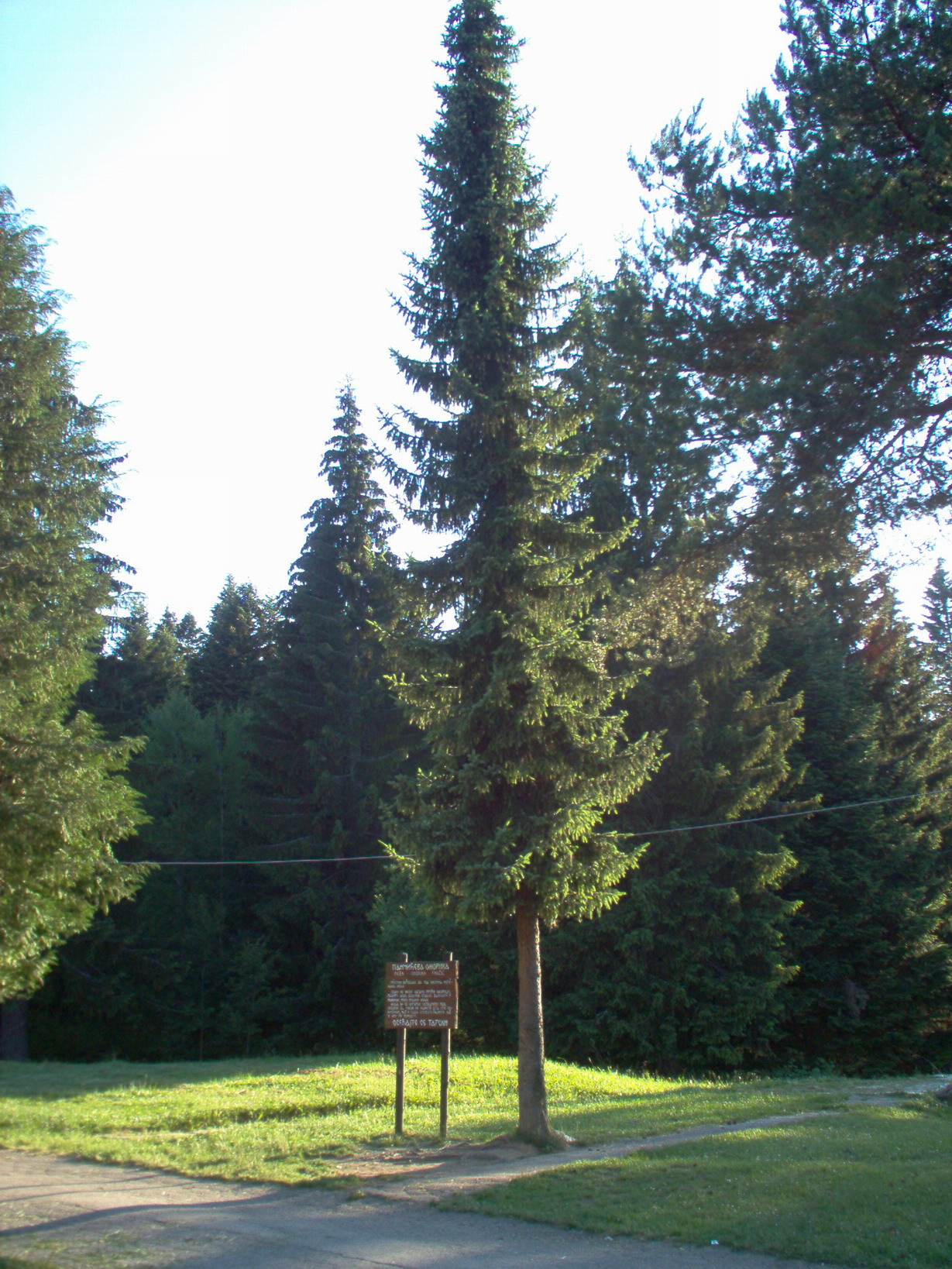 Picea omorika, Serbia